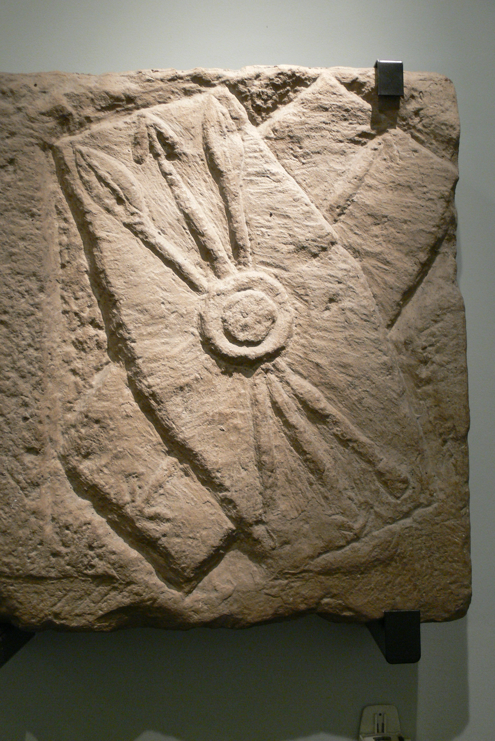 Roman Museum, Vienna. Weapon frieze ( 1st century ).